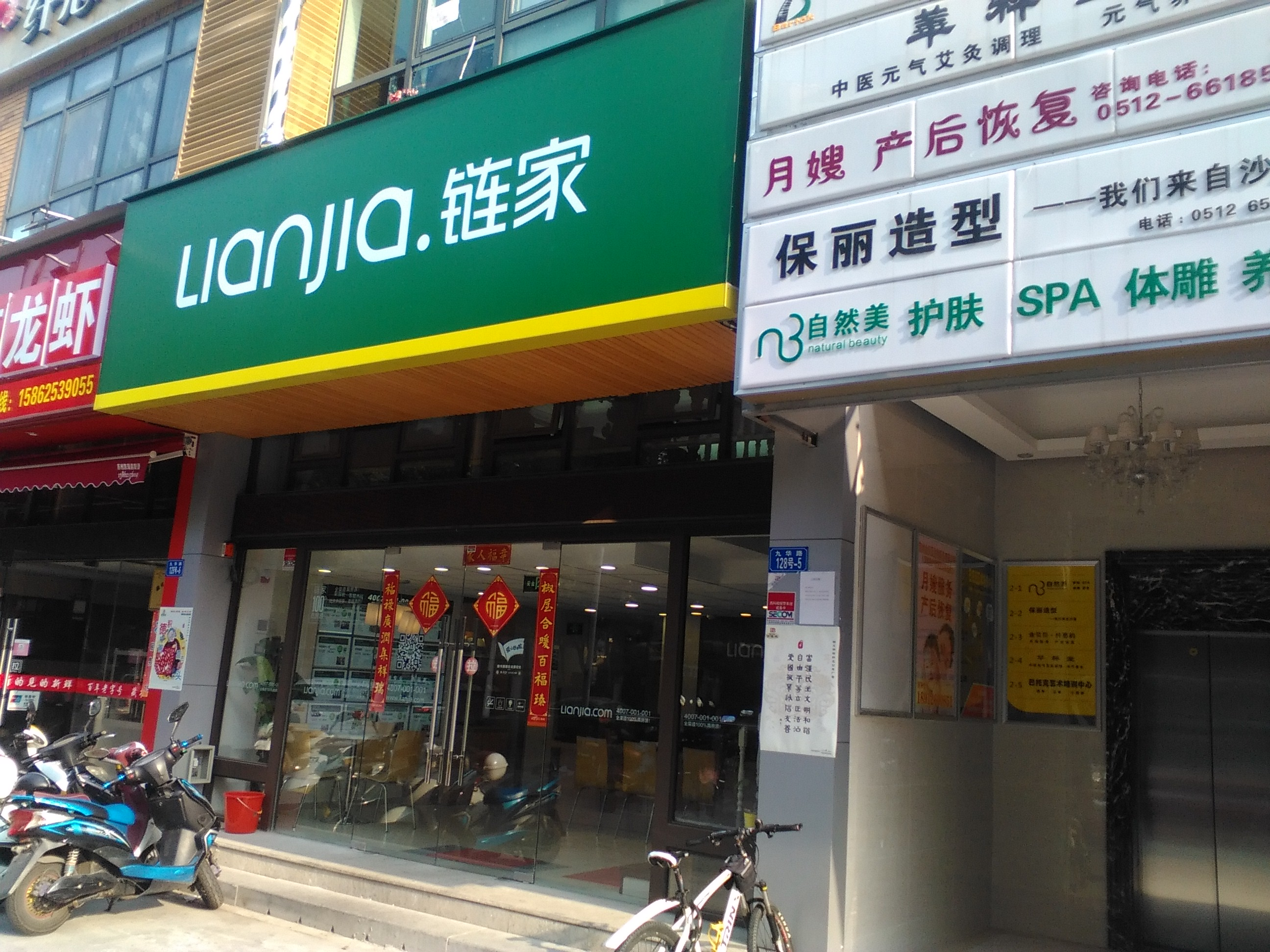 Lianjia (Homelink) Store on Jiuhua Road, Suzhou Industrial Park